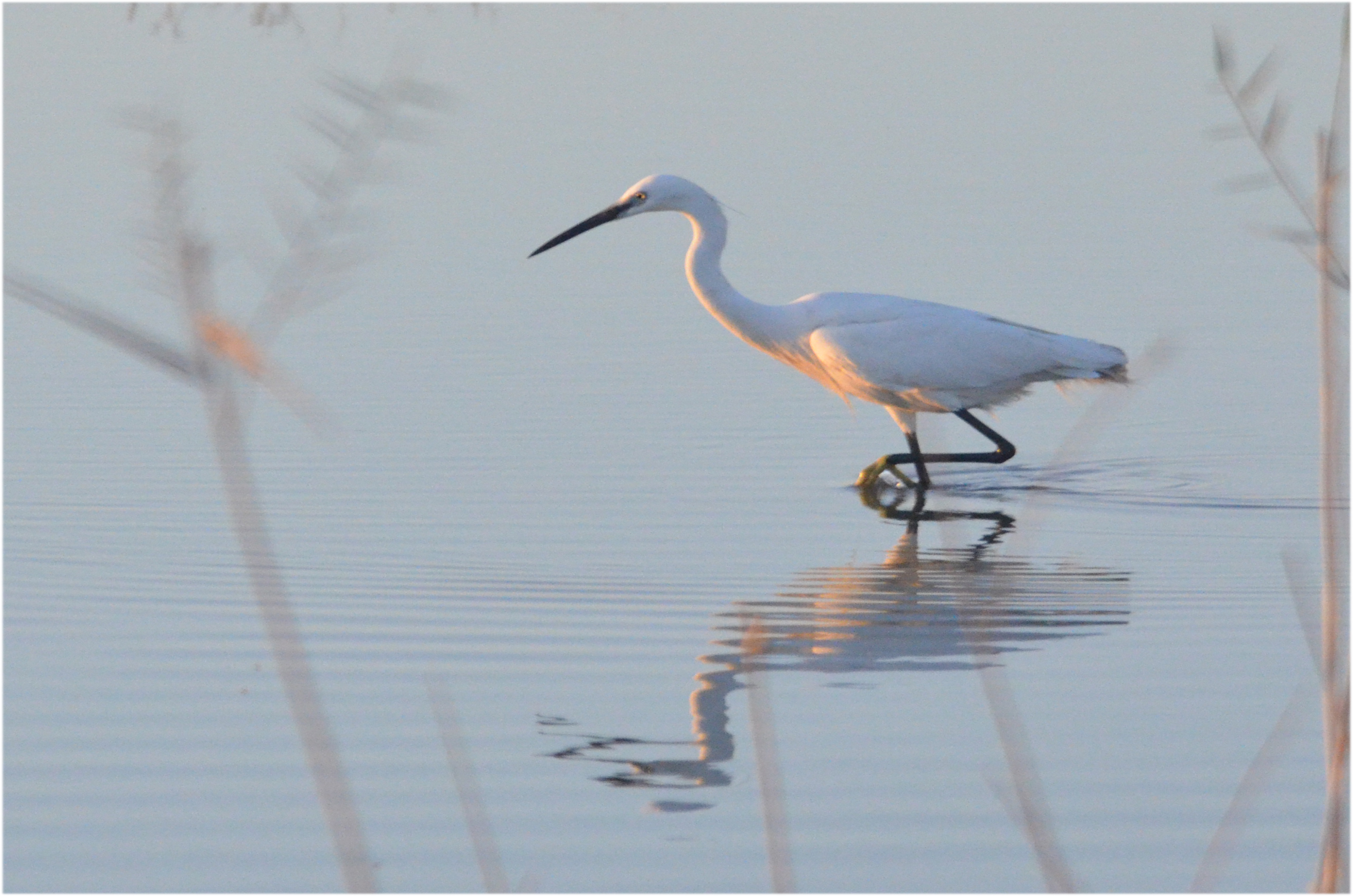 Little Egret